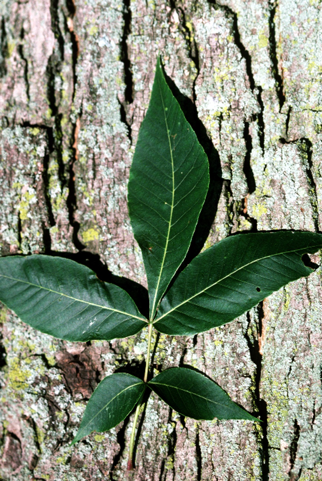 Carya glabra bark and leaf